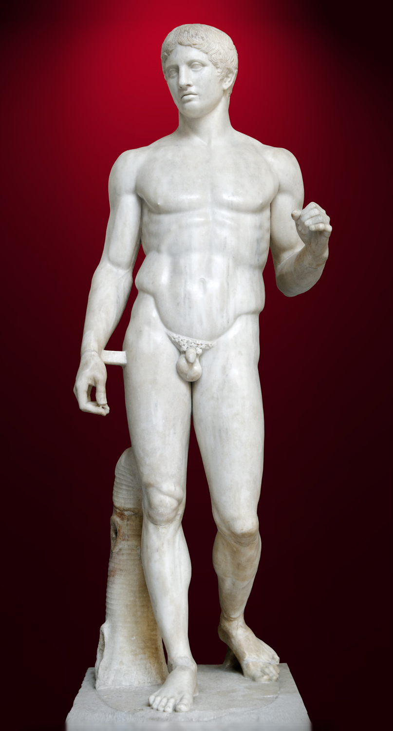 Statue of a young warrior carrying a spear. Roman copy of the Imperial era after a Greek original of the Late Classicism.